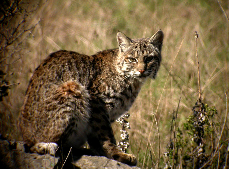 Bobcat Lynx rufus, Tennessee Valley, Golden Gate NRA, Marin County, California